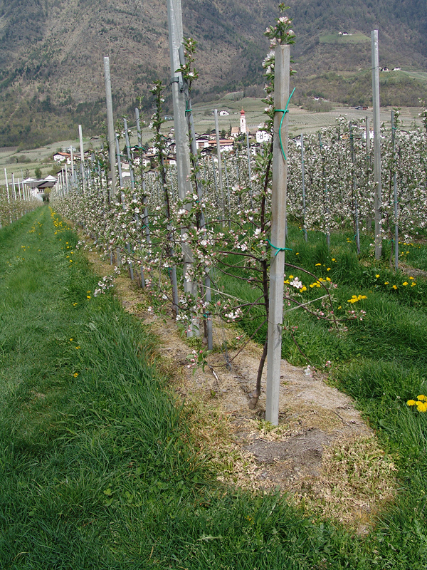 An example of Roundup-use as an alternative to mowing in apple orchards. Photo taken in Ciardes, Italy.